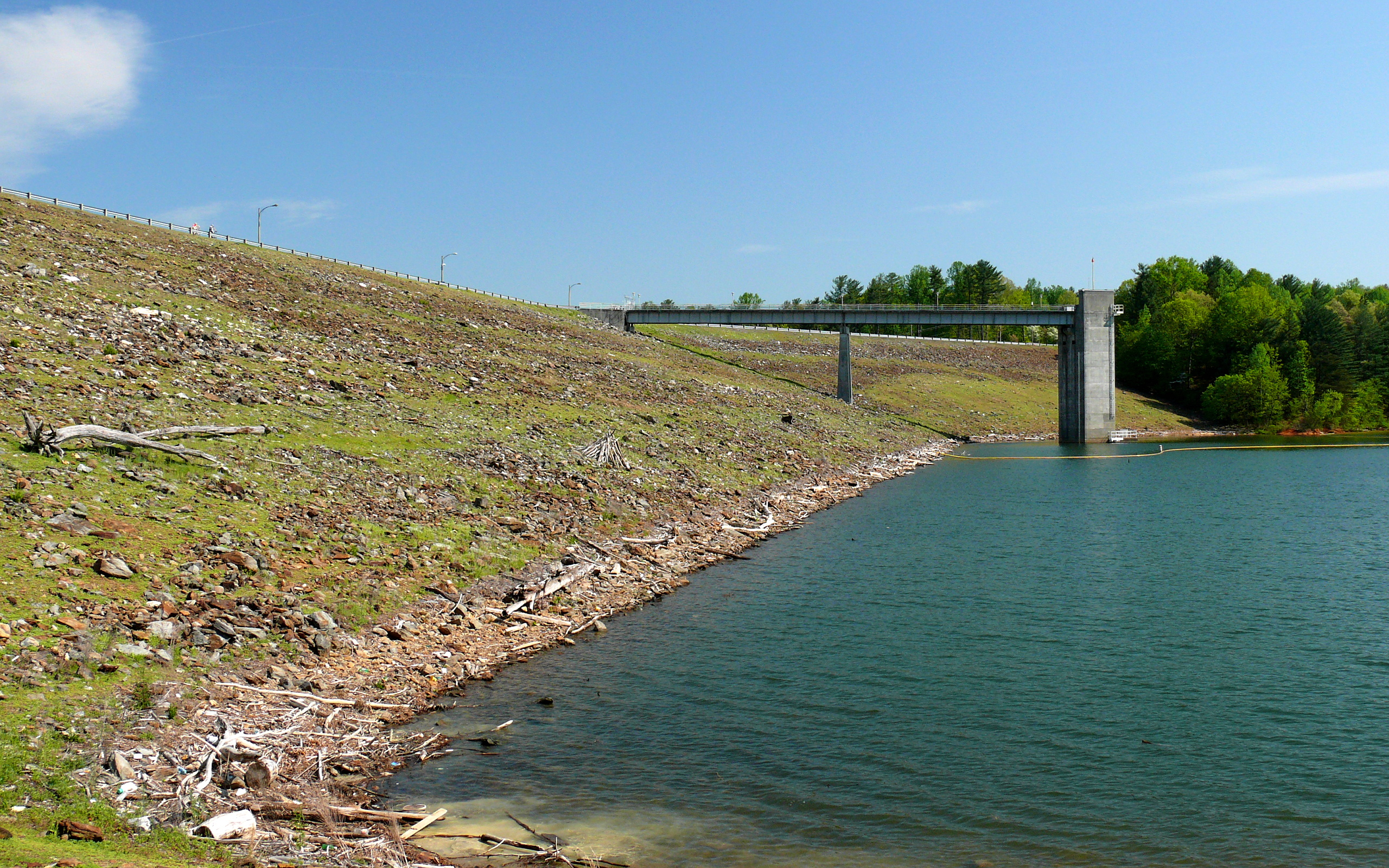 The W. Kerr Scott Dam at the W. Kerr Scott Reservoir. Photo taken with a Panasonic Lumix DMC-FZ50 in Wilkes County, NC, USA.